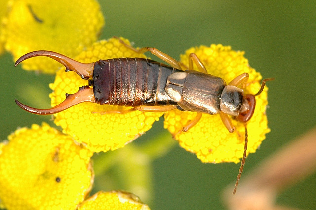 Forficula auricularia from Commanster, Belgian High Ardennes .